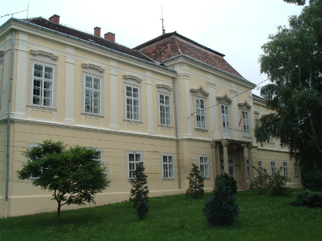 The Schilsons' manor house in Vassurány, Hungary